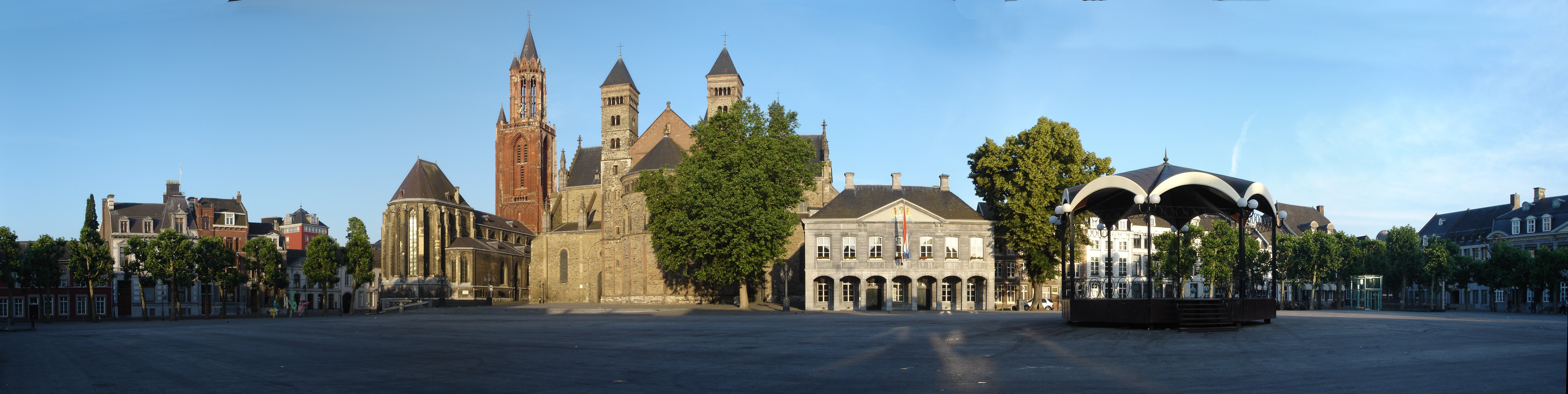 Panorama of Vrijthof at Maastricht, Netherlands Picture taken on an early sunday morning in June at 6:34 am The square was absolutely empty, however one could still hear techno music from some club.